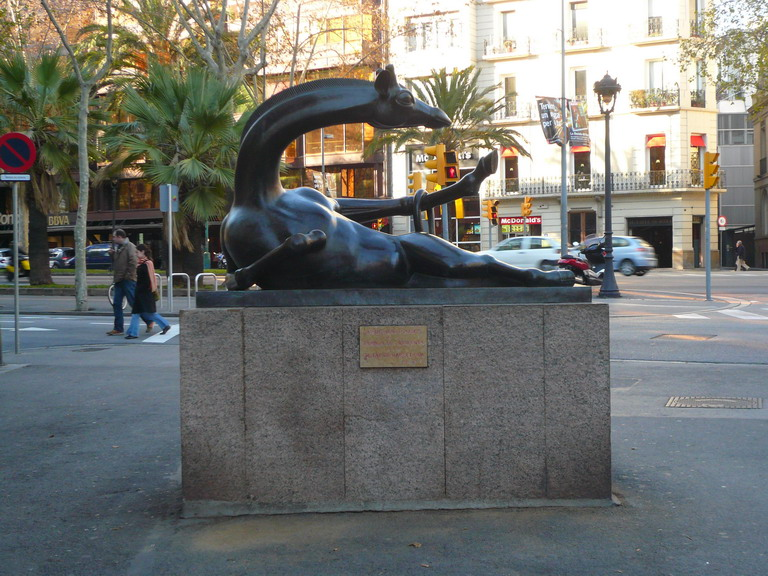 La girafa coqueta in Rambla de Catalunya in Barcelona, by Josep Granyer i Giralt.